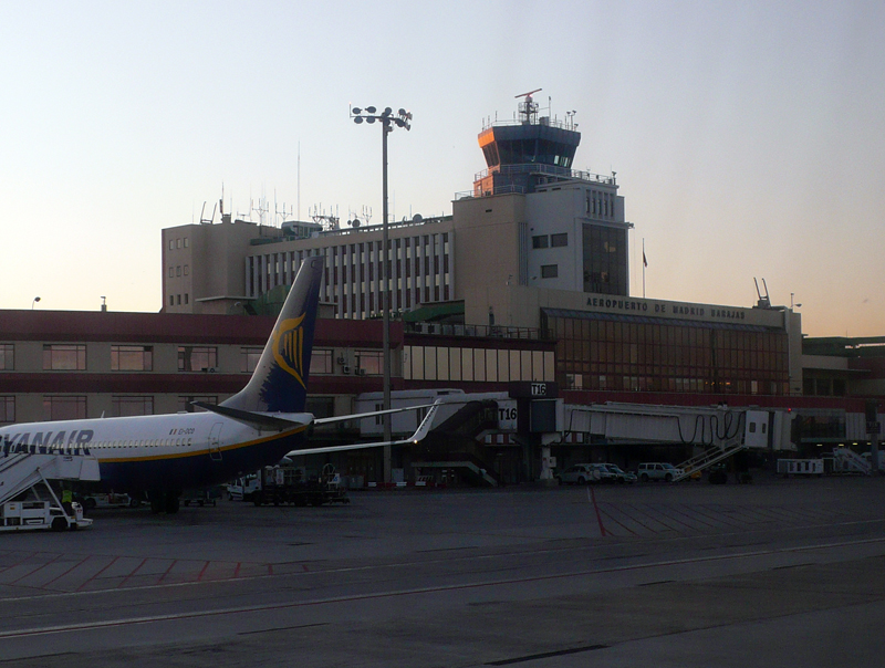 T-2 Terminal in Madrid-Barajas Airport (Spain)